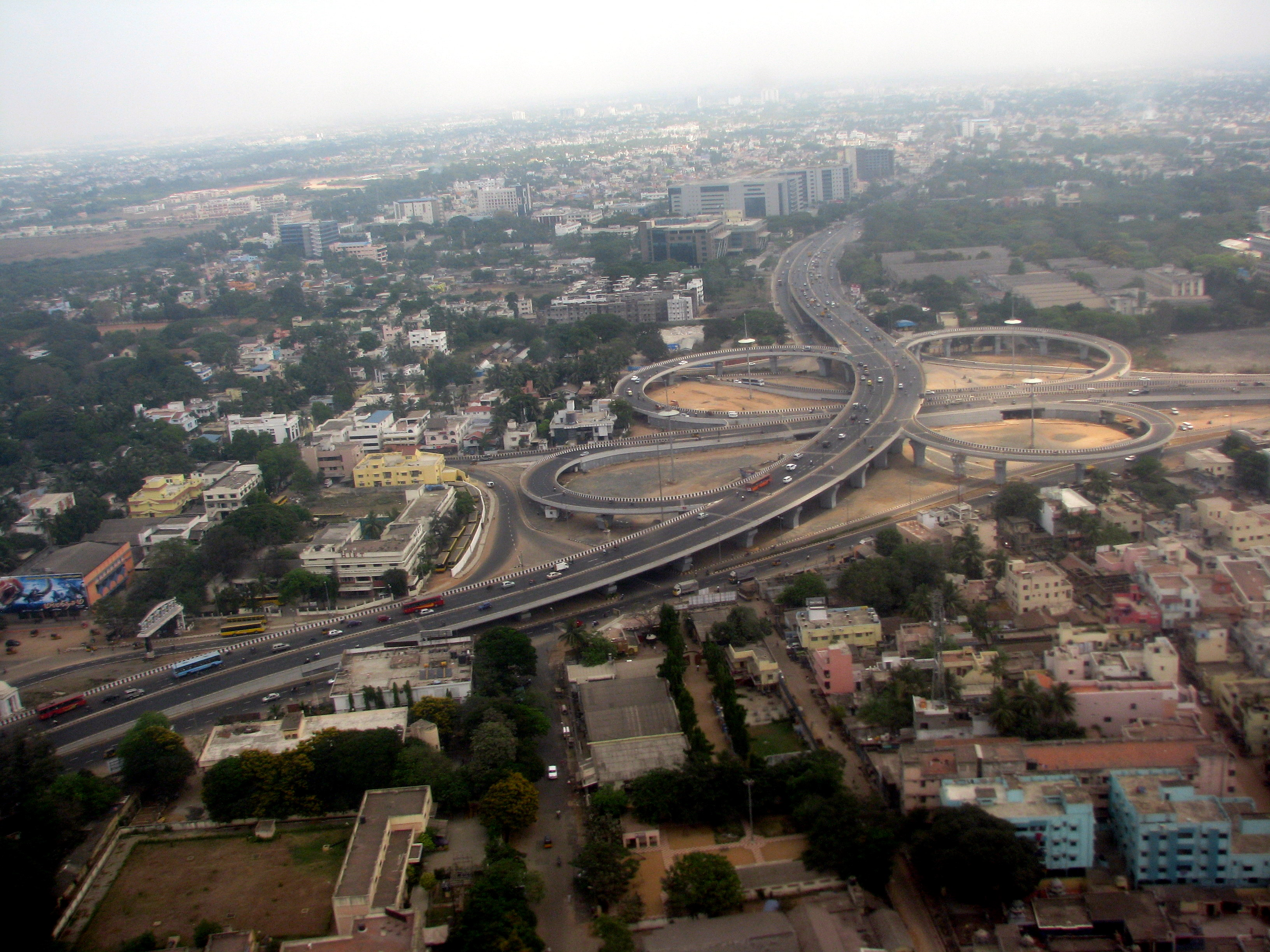 Aerial view of Kathipara Grade Separator in Chennai